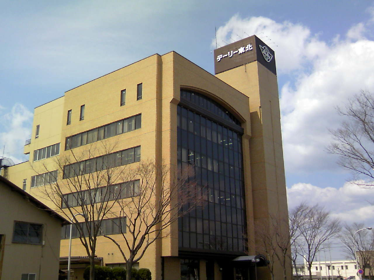 デーリー東北新聞社・本社 (Daily TOHOKU SHImbun,Inc / Newsparper - HACHINOHE, AOMORI, JAPAN)